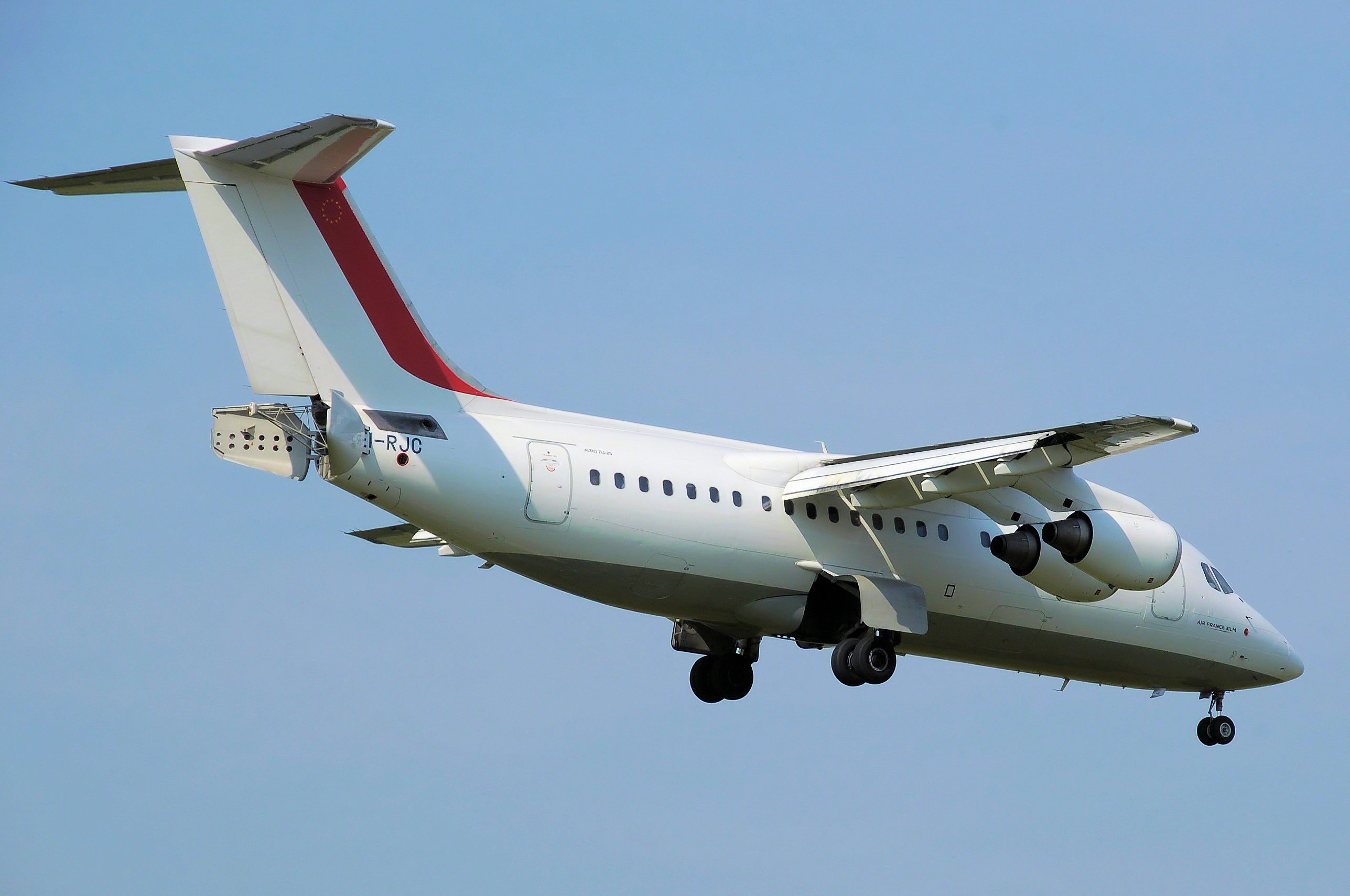 Cityjet British Aerospace RJ85 (EI-RJC) lands at Birmingham International Airport, England.